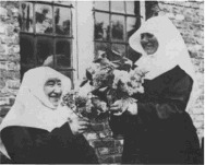 Beguines from the beguinage of Dendermonde